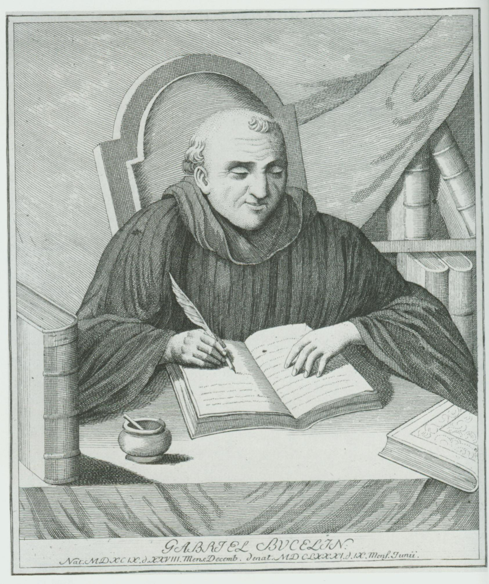 engraving showing the Benedictine monch Gabriel Bucelin (1599-1681)